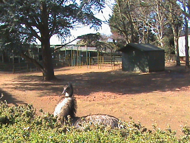 Emus and wallabies at Tropiquaria